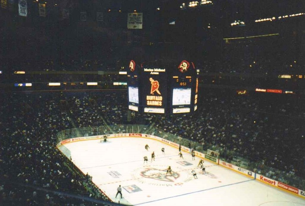 Full House at Buffalo's Former Marine Midland Arena for Buffalo Sabres Hockey, 1999